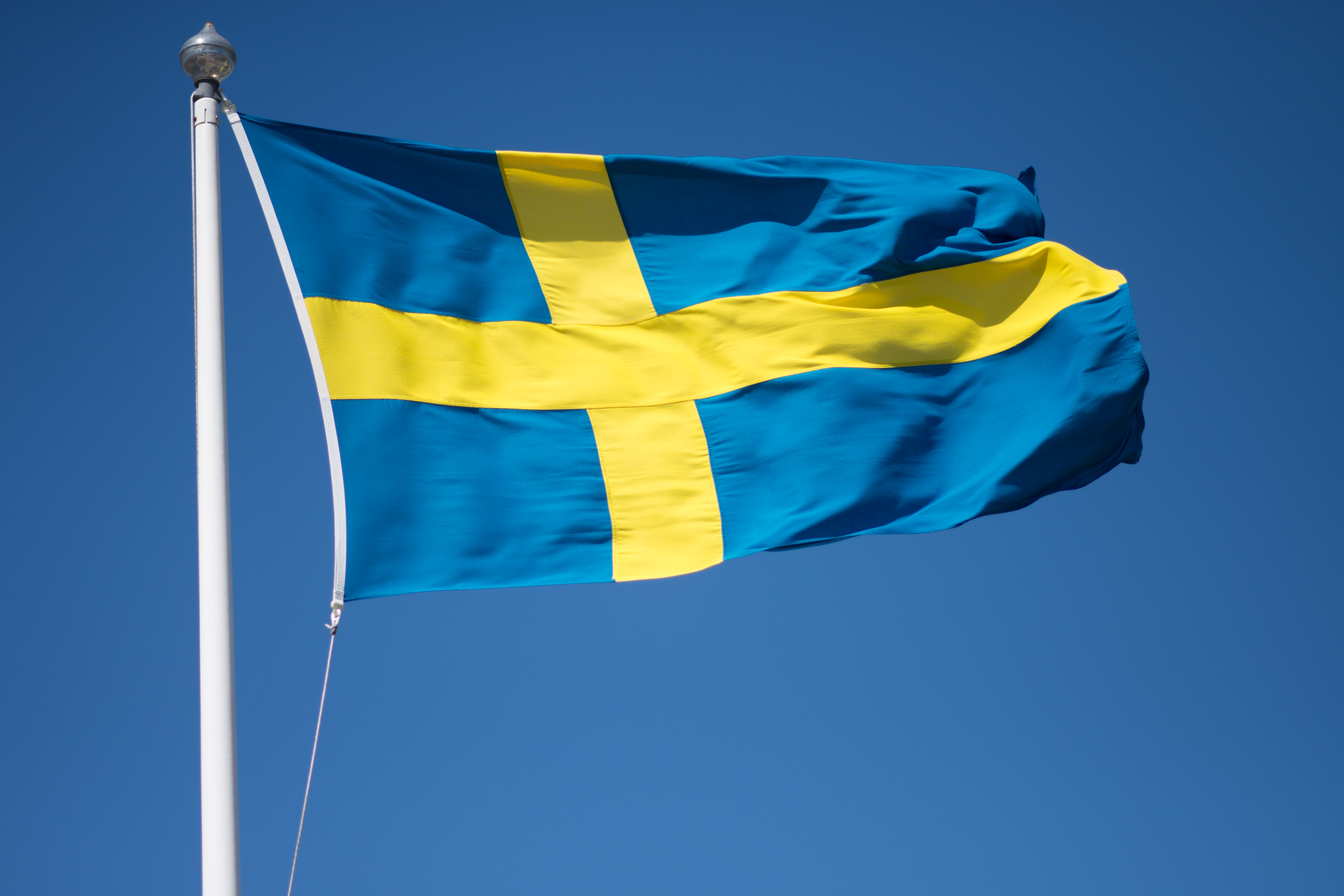 The flag of Sweden flying on June 24th celebrating Midtsommar in Grebbestad, Bohuslän, Sweden.